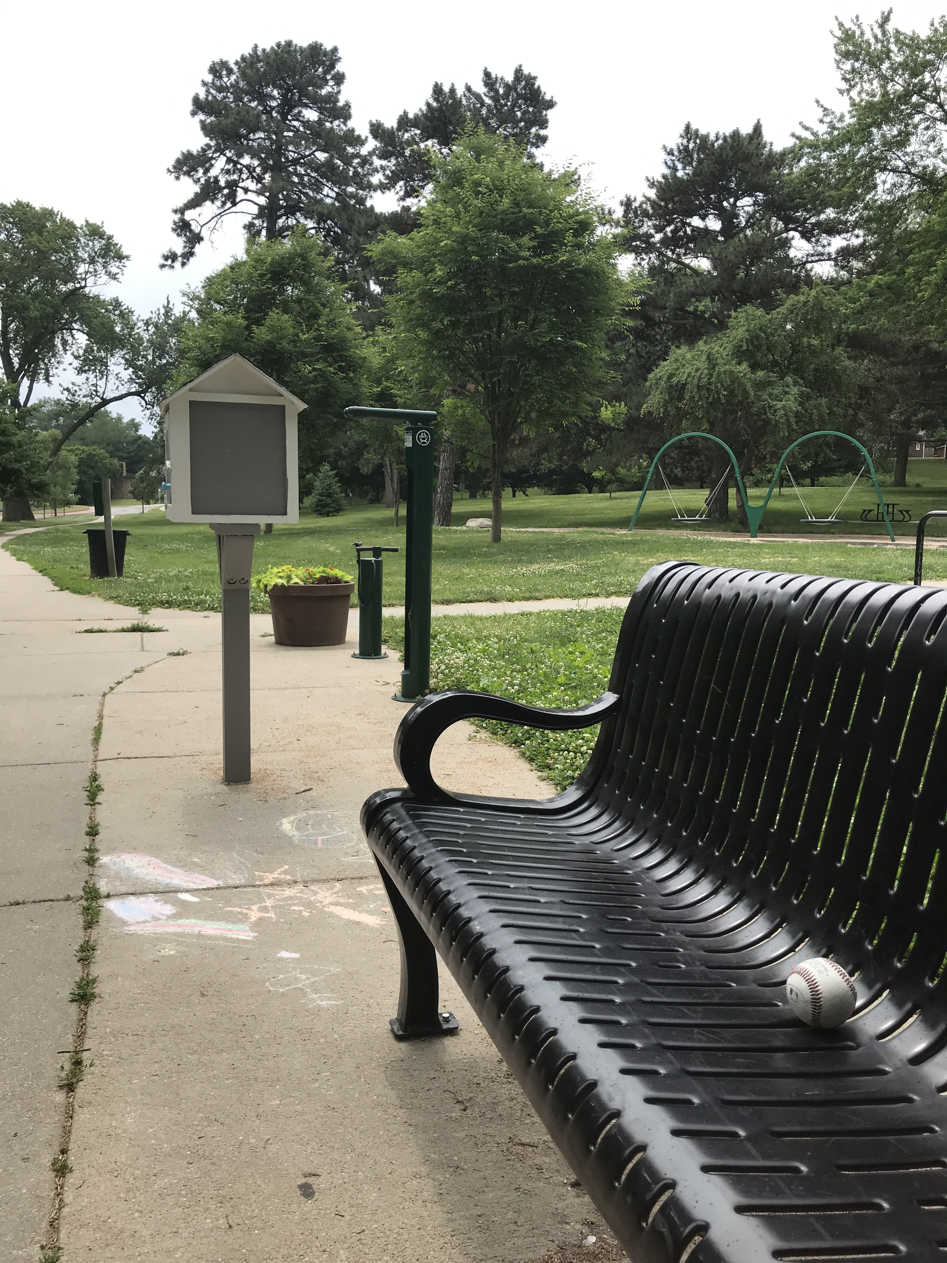 Pictured are several features at Metcalfe, including a park bench with a baseball sitting on it, a Little Free Library, a dog waste station and a bicycle repair station with tire pump.